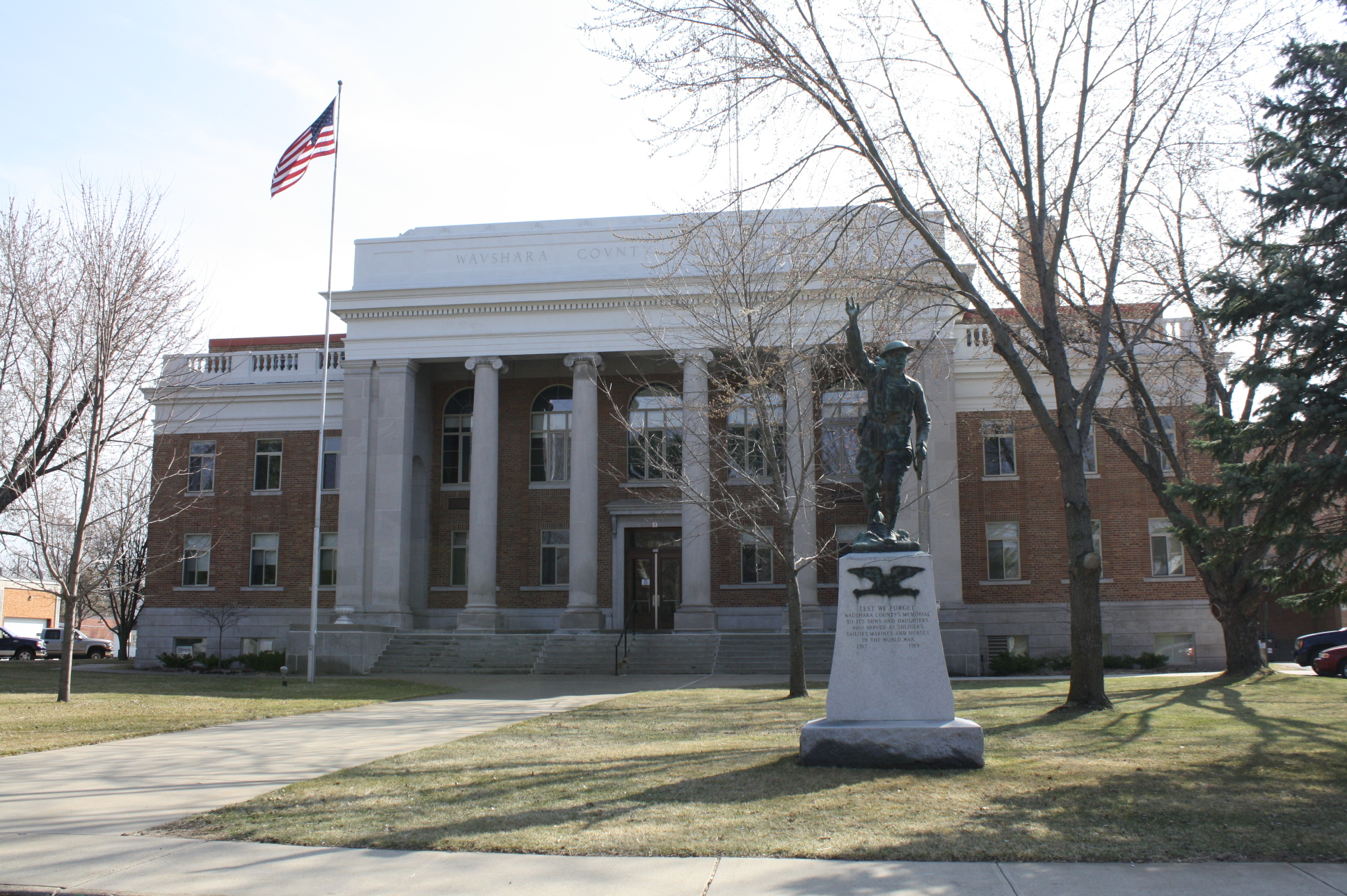 The current Waushara County, Wisconsin courthouse in Wautoma, Wisconsin.